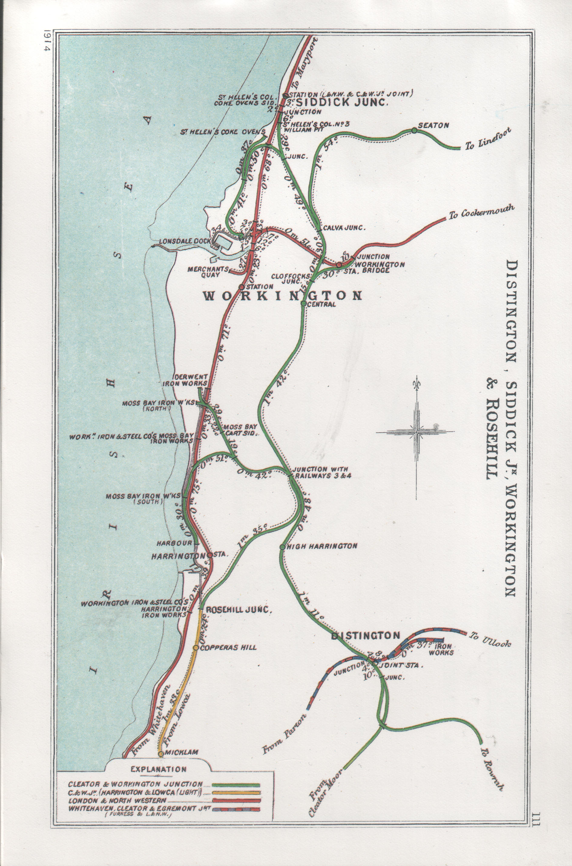 Pre Grouping railway junction around Distington, Siddick Jn, Workington & Rosehill